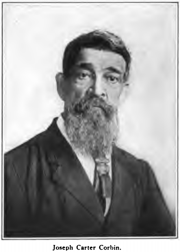 James Carter Corbin in 1910.